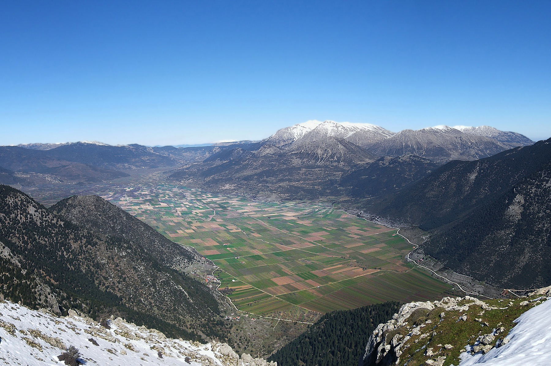 Polje Fenoes, a plateau in 720 m, Prefecture Corinthia. The plateau has no natural surface water outlet, which is a relatively frequent geological phenomenon in Karstbasins (island Peloponnese in Greece). Two small streams, Olvios and Doxa (Όλβιος, Δόξας) empty into the polje. When precipitation of winters is exceptionally large, the soil of the polje is partly wet. A temporary lake may result even nowadays, when the capacity of the three ponors is insufficient or the ponors, or their subsurface waterways, are blocked.